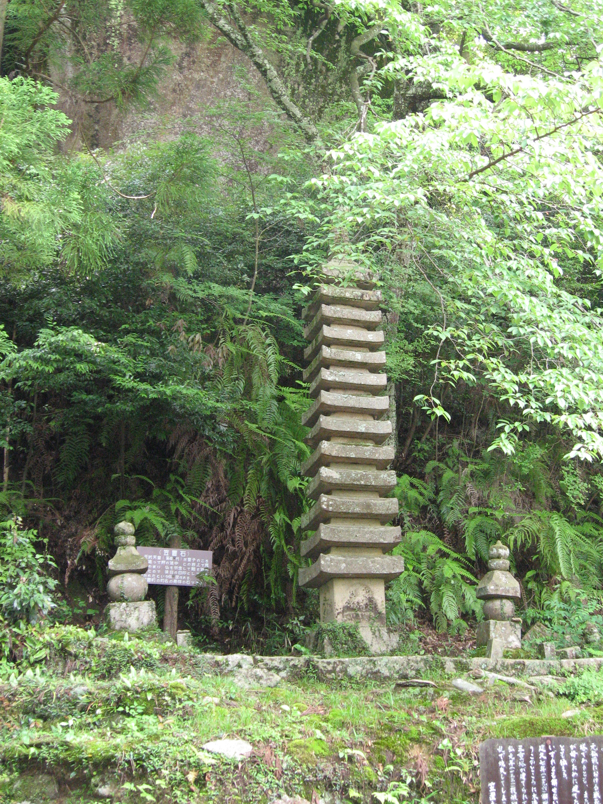 Stone pagoda of Kasagidera